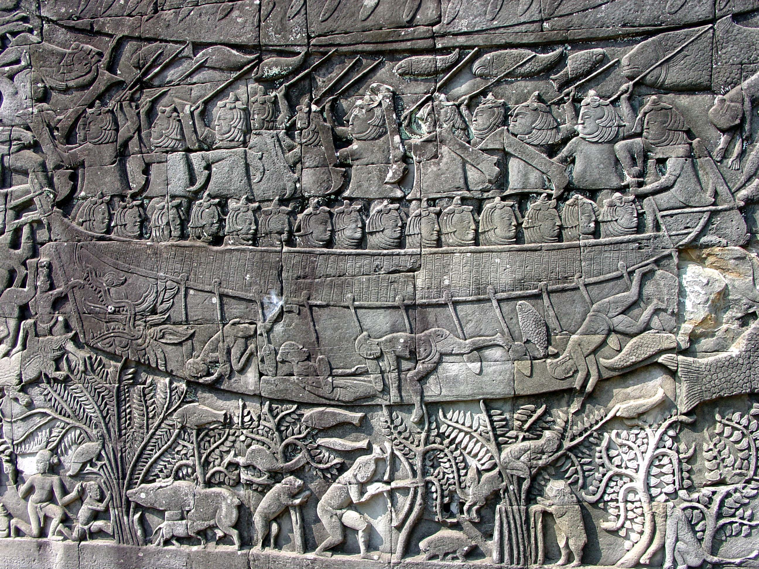 South outer gallery, east wing Bayon, Angkor Thom This scene from a naval battle shows Champa soldiers standing in their boat, which is being boarded by the Khmer at photo left. The Cham boat is manned by seated oarsmen, whose heads are just visible above the gunwale, while a steersman directs the vessel from the stern (photo right). Below, drowned victims are entangled in the oars; below that, a jungle scene with animals and hunters, including one hunter who has been treed by his quarry. According to the conventions of Cambodian art, the jungle below the boat is understood to be surrounding the lake or river on which the ship is floating; "below" in this case means "in front of".